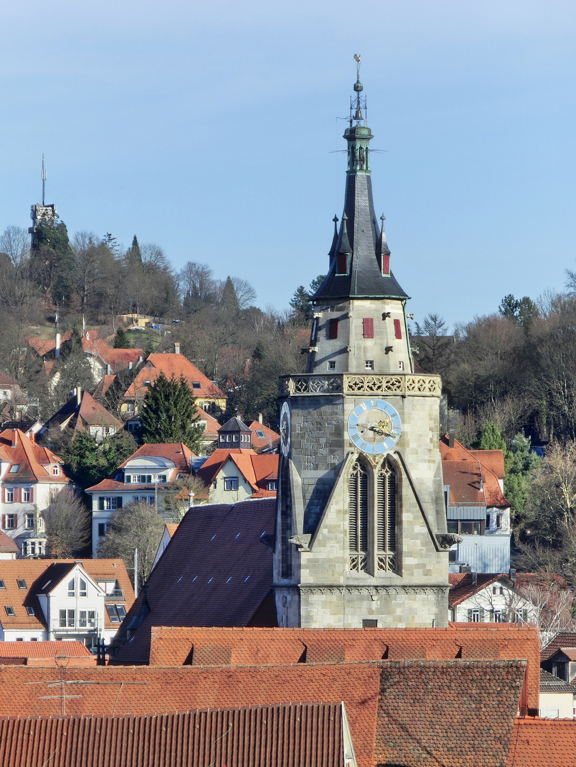 St. George's Collegiate Church in Tübingen, Baden-Württemberg; taken from Hohentübingen castle.